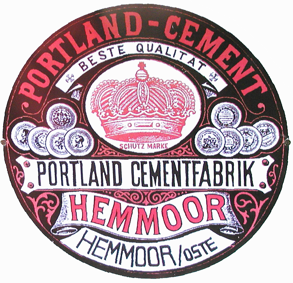 Das Portland Logo